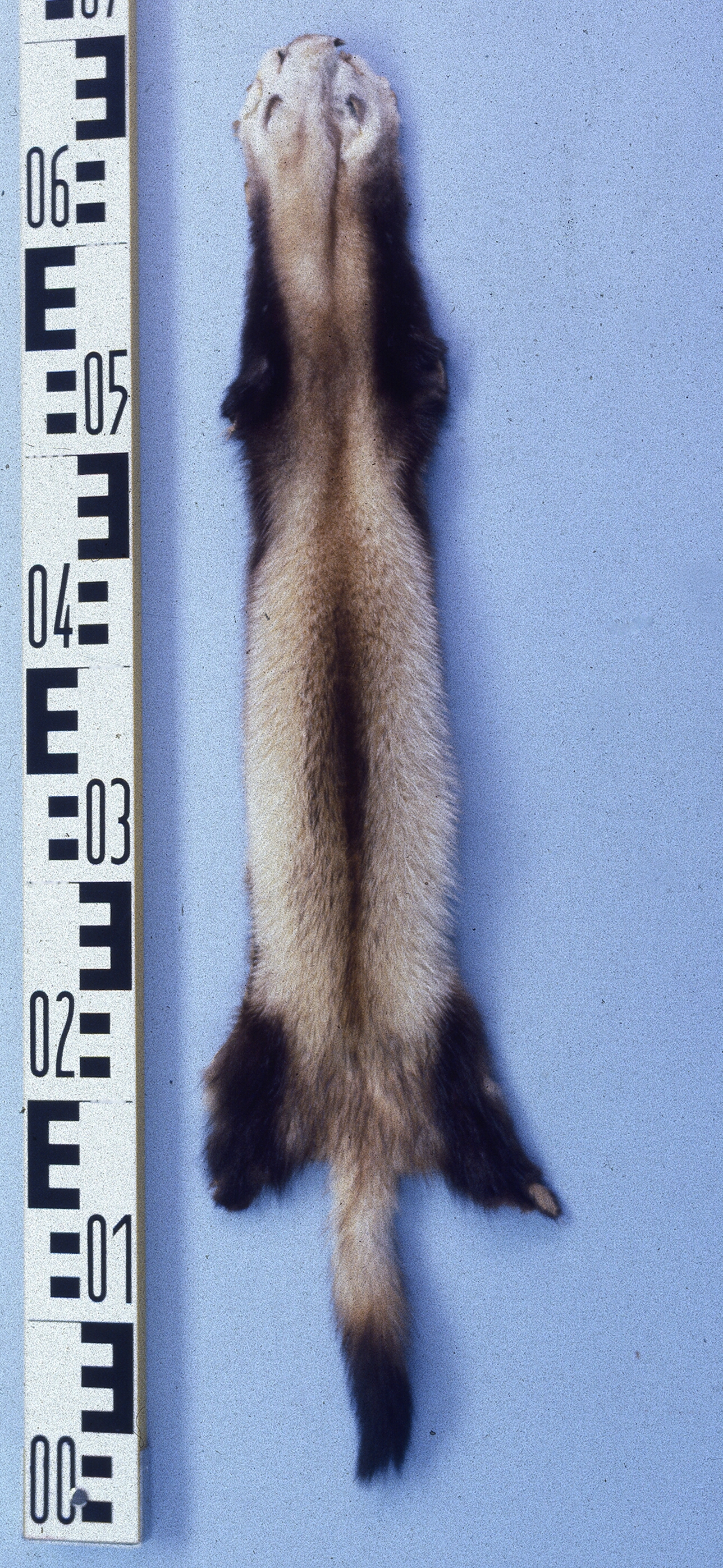 Turkestan polecat fur skin (Mustela putorius eversmanni). Fur skin collection, Bundes-Pelzfachschule, Frankfurt/Main, Germany